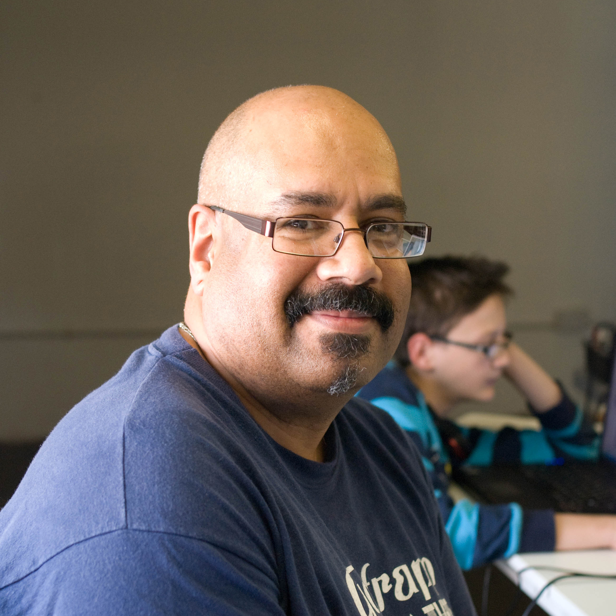 Photo of Mike Little taken in Young Rewired State 2012 on 9 August 2012.